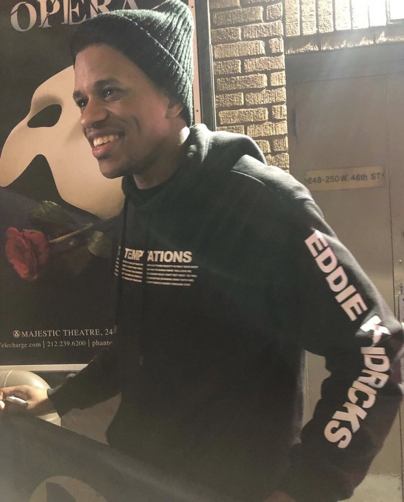 Pope after a performance of Ain't Too Proud